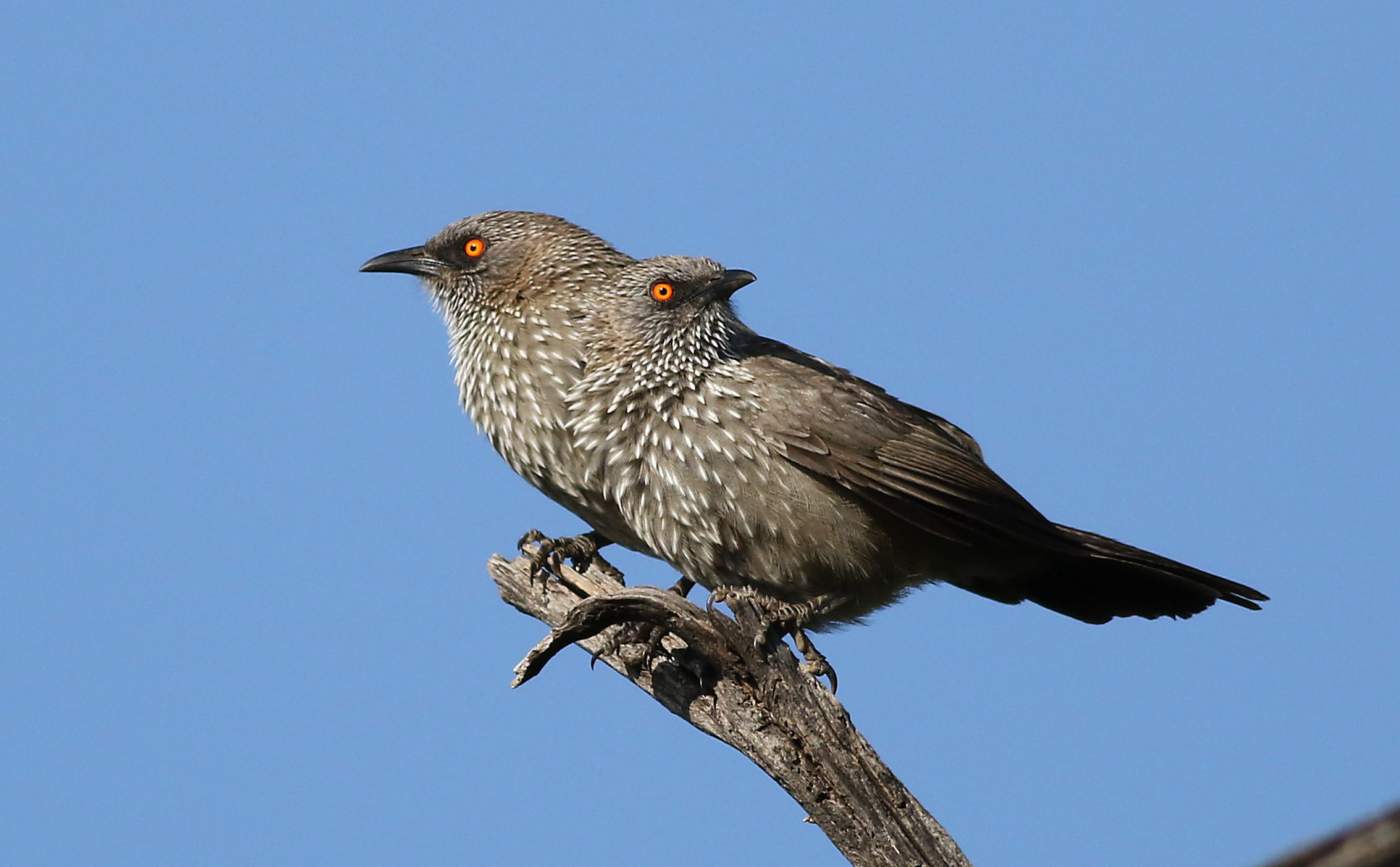 Arrow-marked Babbler,Turdoides jardineii, at Pilanesberg National Park, Northwest Province, South Africa